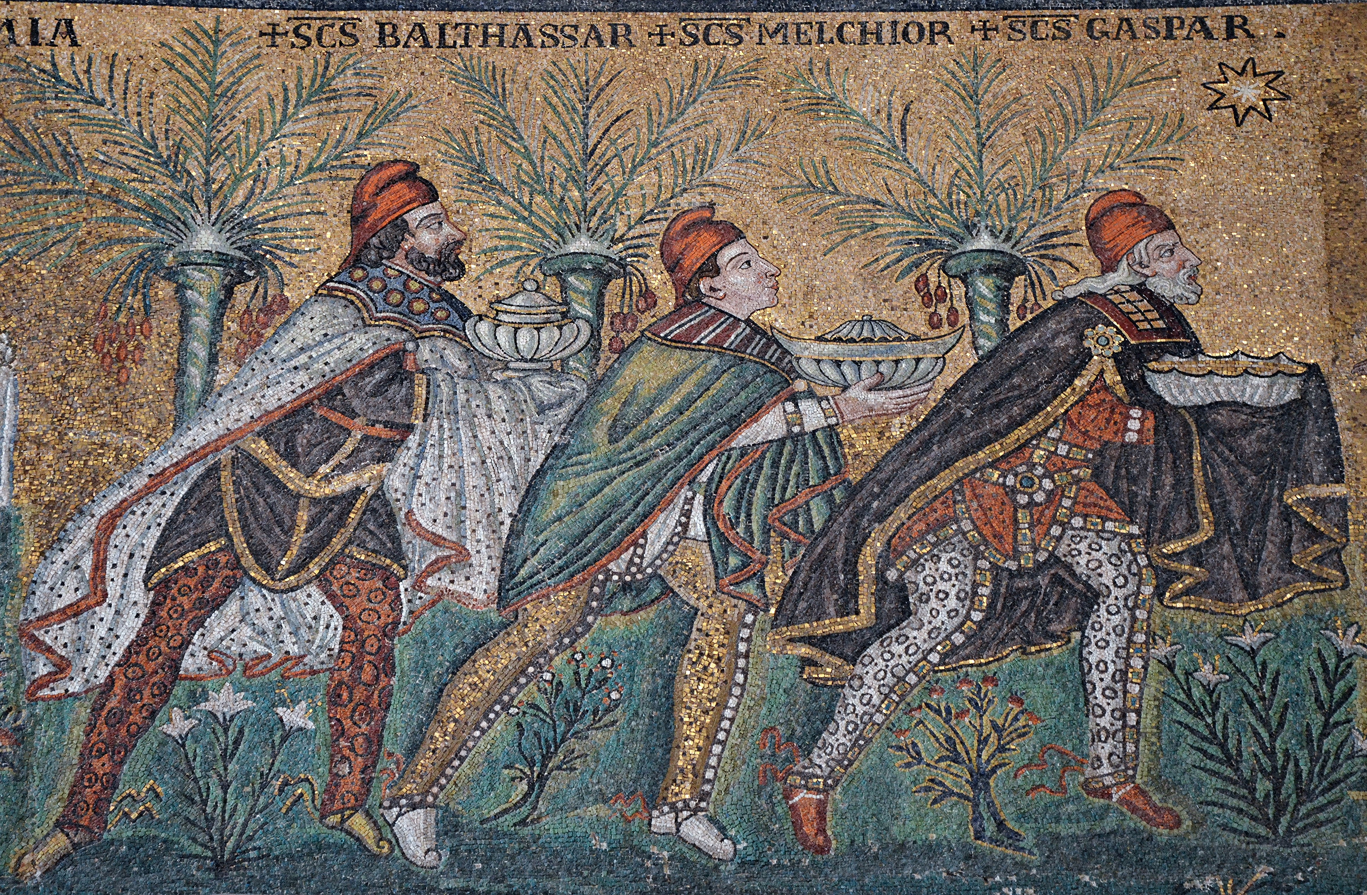 Detail of nave mosaic depicting the Three Magi (Balthasar, Melchior, and Gaspar) wearing trousers and Phrygian caps as a sign of their Oriental origin, c. 500 AD, Basilica of Sant' Apollinare Nuovo, Ravenna